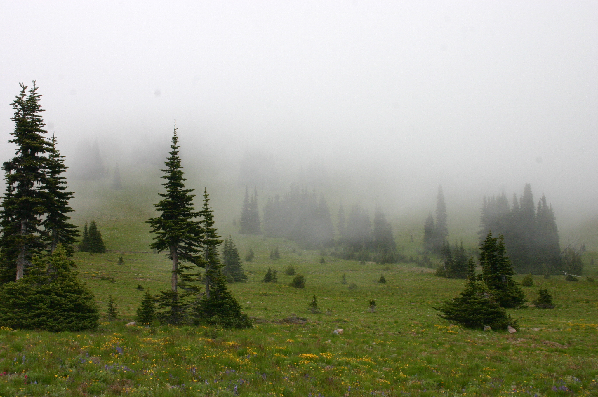 The Abies lasiocarpa forest is encroaching this meadow. When covered by mist, it looks like a paradise